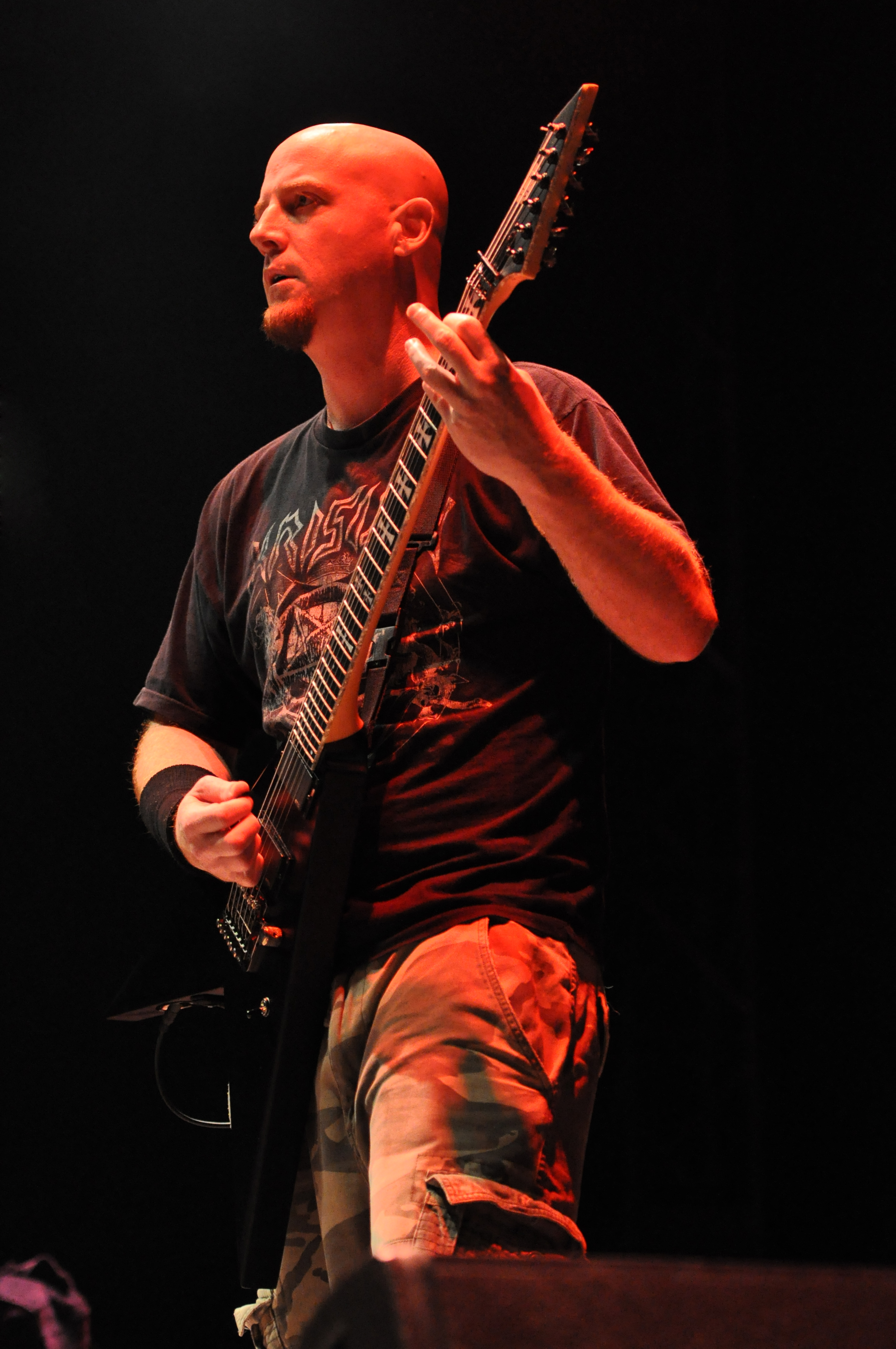 Dying Fetus at Party.San Open Air 2013